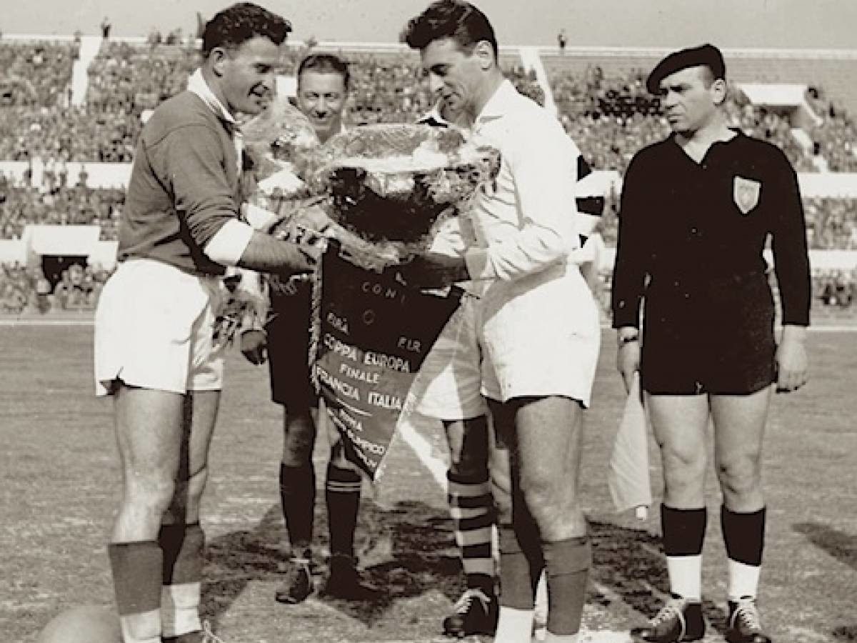 1954 Rugby union European Cup final between Italy and France at the Stadium of the 100,000 (now Stadio Olimpico) in Rome. France won the match 39-12. In this picture the captains of the two teams, the Frenchman Jean Prat and the Italian Paolo Rosi, exchange their teams' pennants